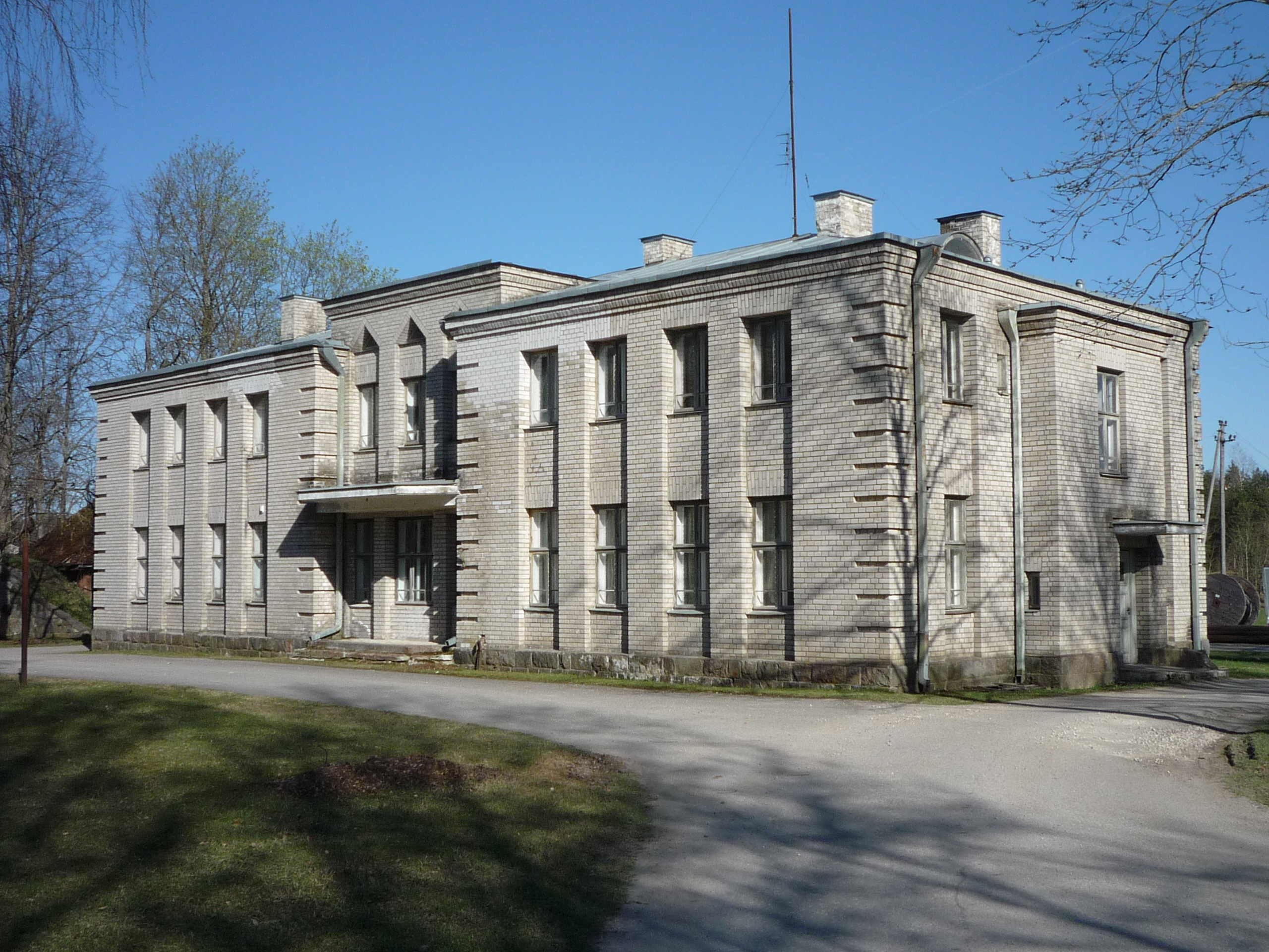 Märjamaa old railway station building. View from opposite side of former railway embankment. Märjamaa, Rapla county, Estonia.